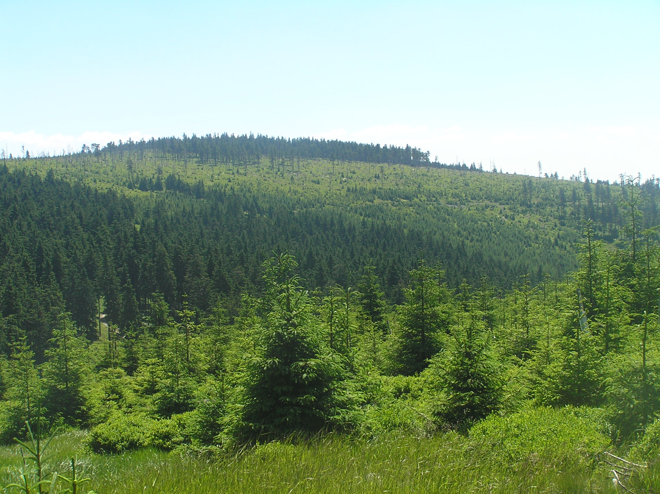 Souš, Králický Sněžník Mountains, Czech Republic